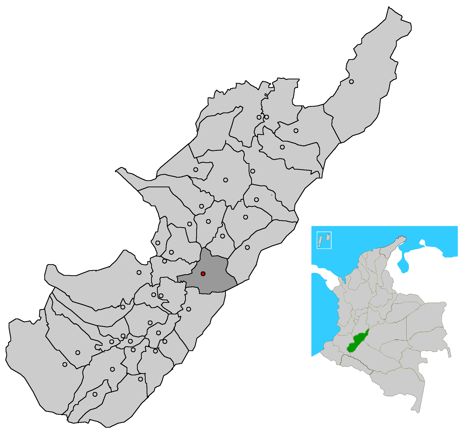 Image depicting map location of the town and municipality of Gigante in Huila Department, Colombia